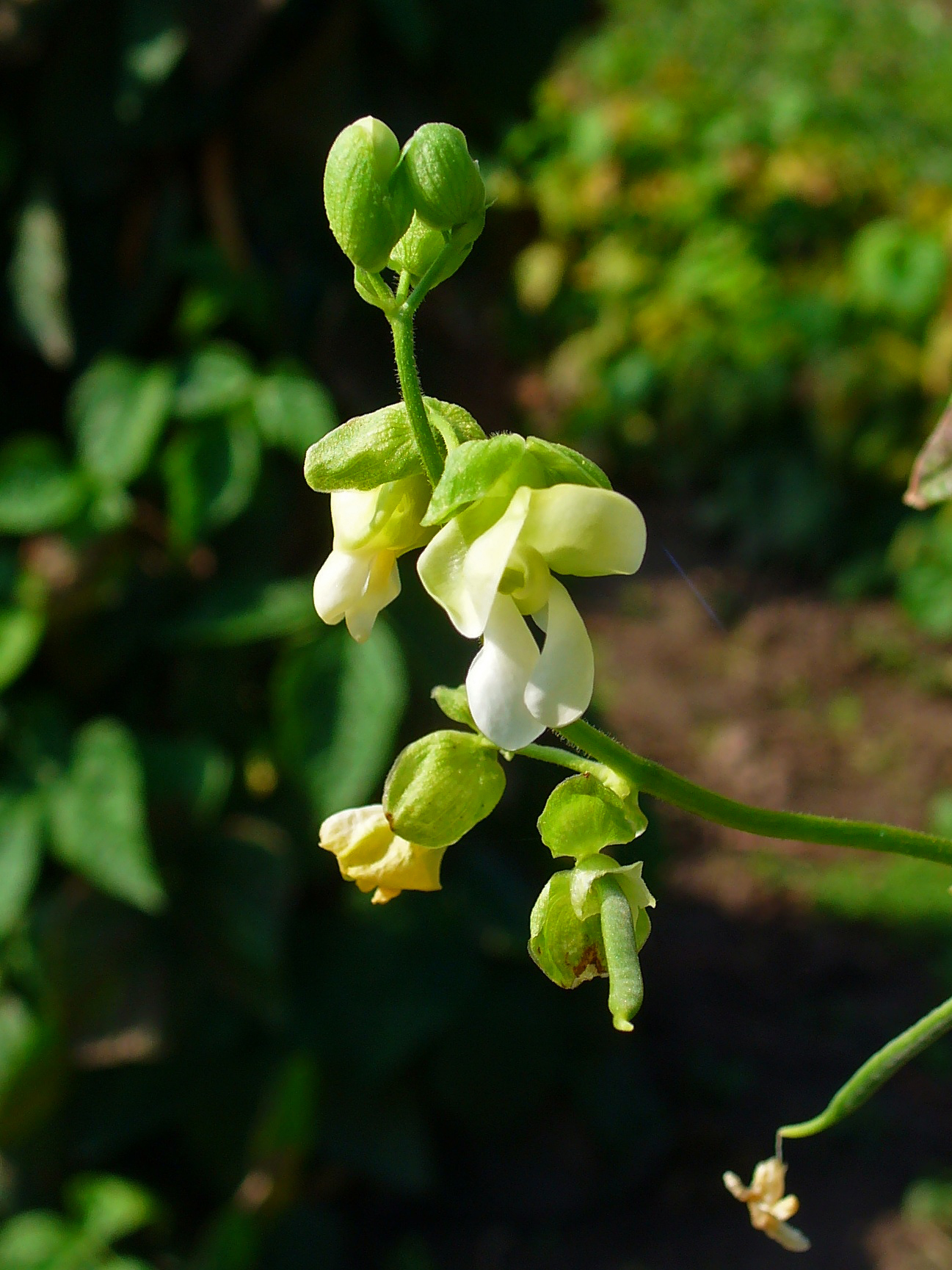 Phaseolus vulgaris, Fabaceae, Common Bean, inflorescence.